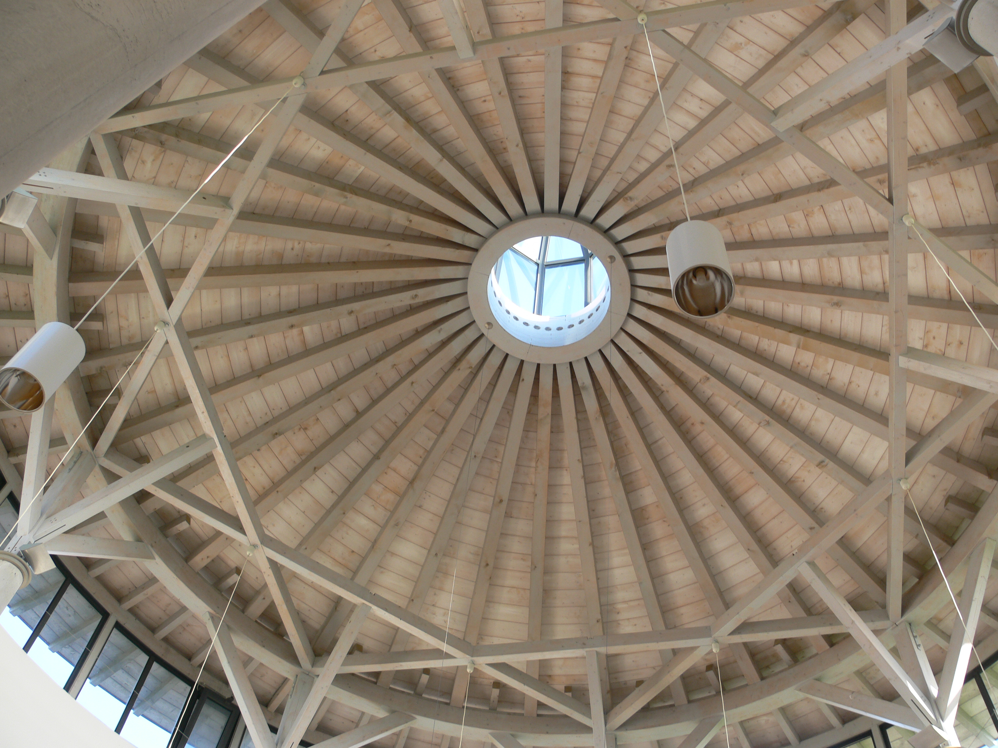 Highway Chapel St. Gallus, Leutkirch, Germany. Wooden roof structure.